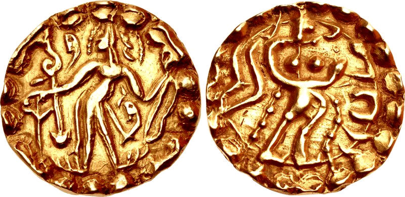 Ratas Sridharanarata of the Samatata Circa AD 664-675. AV Dinar (21mm, 5.59 g, 9h). Stylized archer standing facing, head left, holding arrow and bow; standard to left; śrī in eastern Brahmi in upper left and lower right fields / Stylized goddess standing right; pseudo-letters to right.